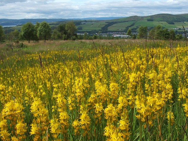 Bog Asphodel This is a closer view of some of the flowers that make up an extensive patch of Bog Asphodel (Narthecium ossifragum) on the grassy moors below Pappert Hill: 1402750. This is a native species, found in bogs and other wet acidic habitats. After flowering, the dried-up remnants of the plant retain a strong orange-yellow colouring for quite some time. The specific name 'ossifragum' means 'bone-breaker'; as is explained in Richard Mabey's "Flora Britannica", that name is indirectly related to the habitat in which the plant is found: "it derives from the belief that grazing the plant made the bones of sheep brittle – though it was not bog asphodel which caused this, but the sour calcium-poor pastures in which it occurs". As for the background, a small part of the River Clyde can be seen at the far left. Slightly to the left of centre, visible as little more than a thin pale-blue line near the top of a hill, is Carman Reservoir. The hills to the right of centre are Carman Hill and Overton Muir.